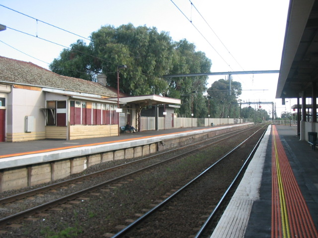 Platform 3 at Werribee. Photo taken by myself